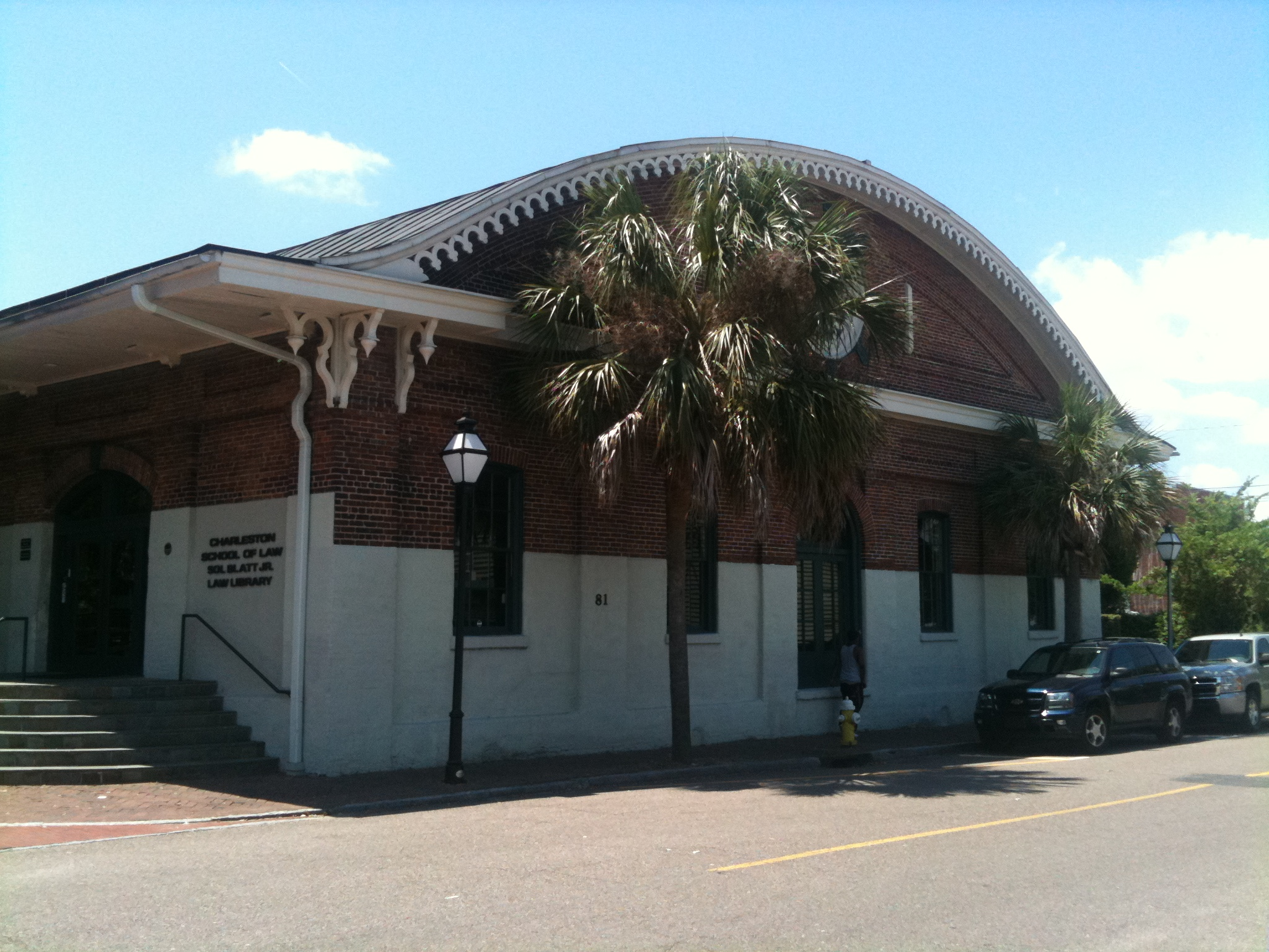 This antebellum structure was a railroad station for the South Carolina Railroad in the 1850s, but today it houses the Charleston School of Law.